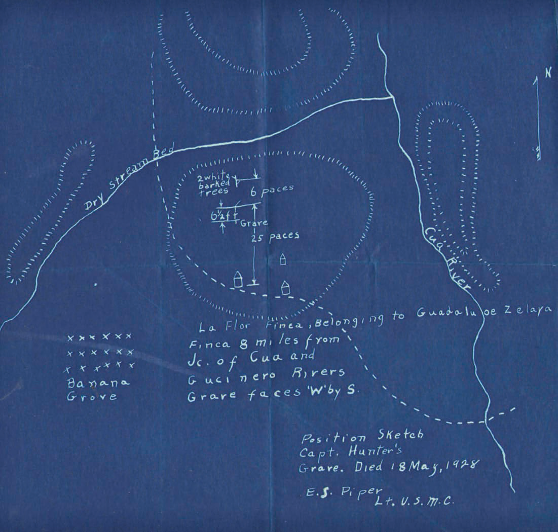 Map showing the graves of Americans killed during the 1928 Batlle of La Flor in Nicaragua. By Lieutenant Earl S. Piper USMC